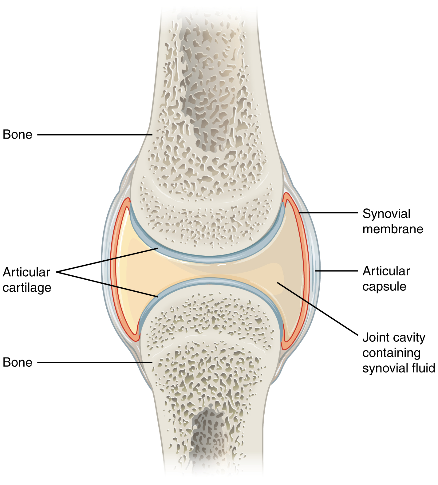 Illustration from Anatomy & Physiology, Connexions Web site. Jun 19, 2013.